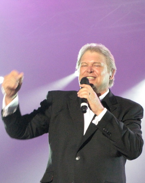 John Farnham performing on 2 November 2010